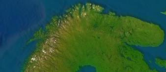 Made from: Image:Europe terrain.jpg Modified by me